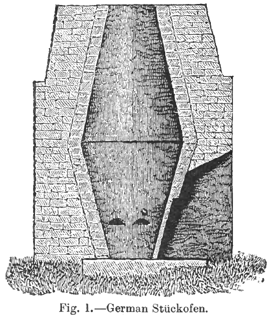 Stückofen type bloomery furnace used in Germany. Illustration from Metallurgy of Iron of Thomas Turner.